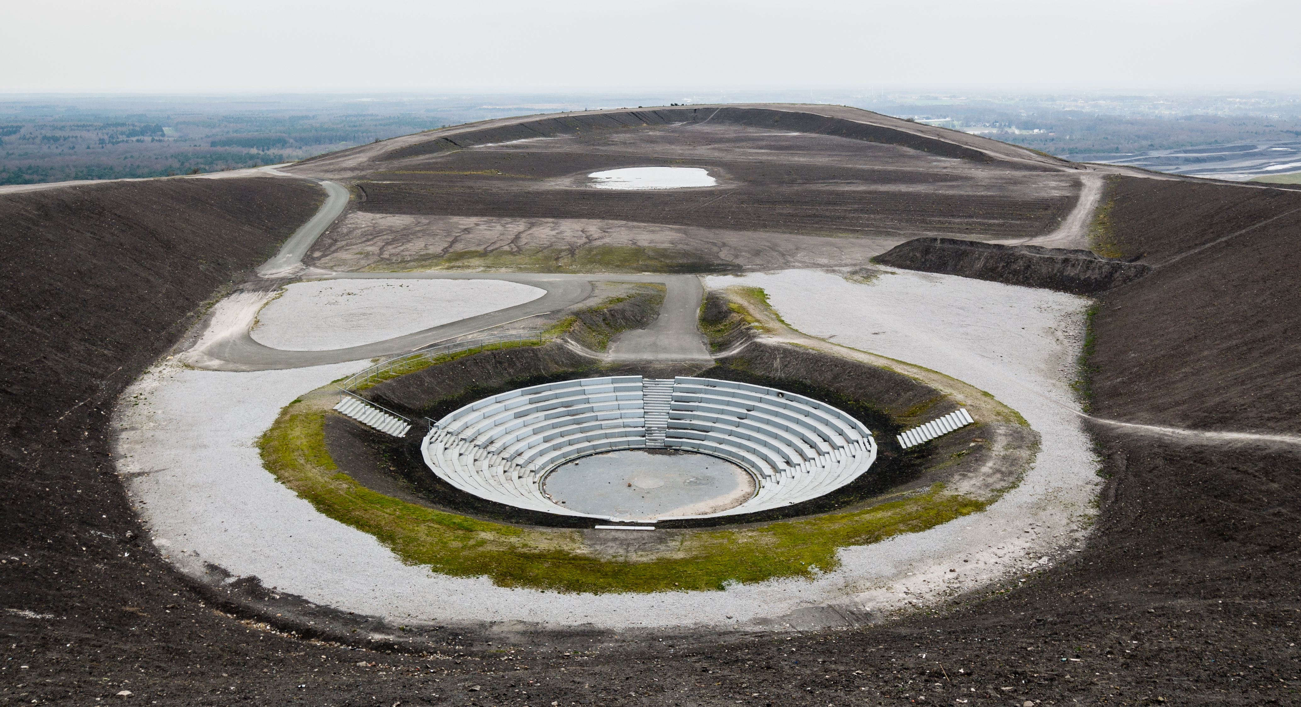 Mining waste tip (Halde Haniel) in Bottrop with Amphitheater